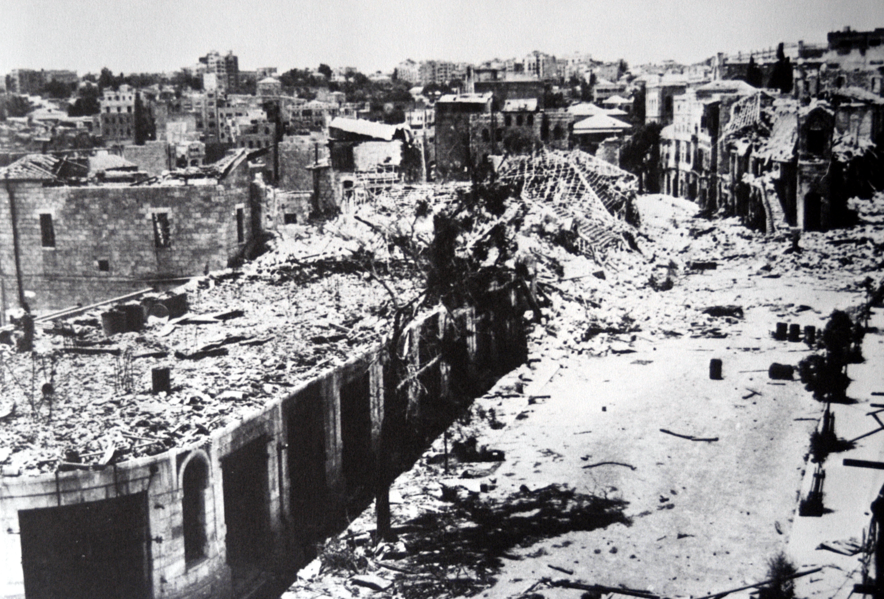 The ruins of Mamilla commercial center outside the Jaffa Gate.